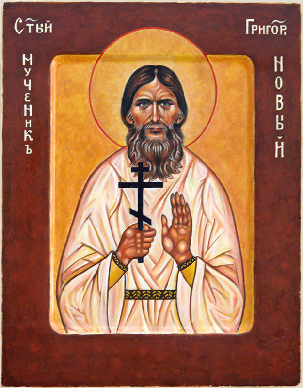 Icon of Grigoriy Rasputin.